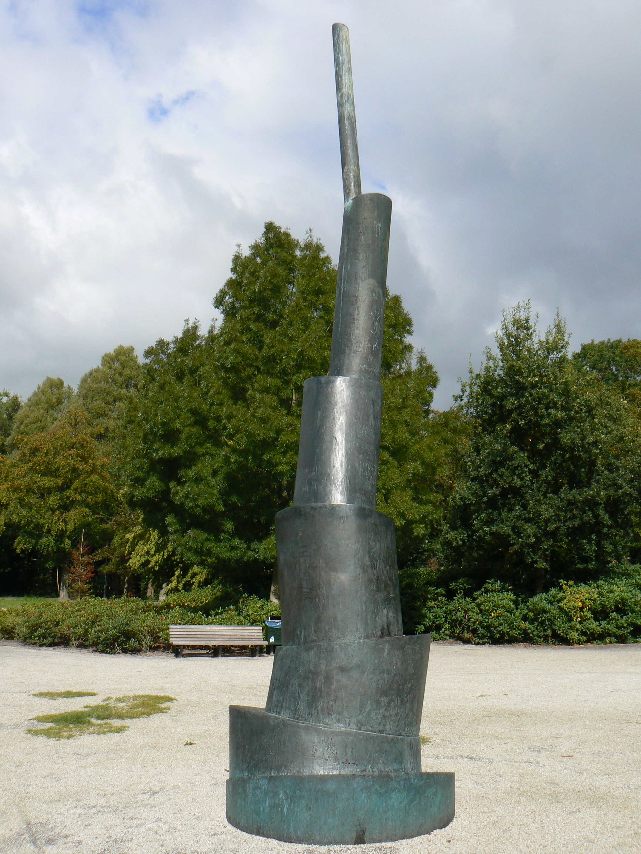 sculpture Phyllotaxis (1996) by Sjoerd Buisman in Groningen/The Netherlands